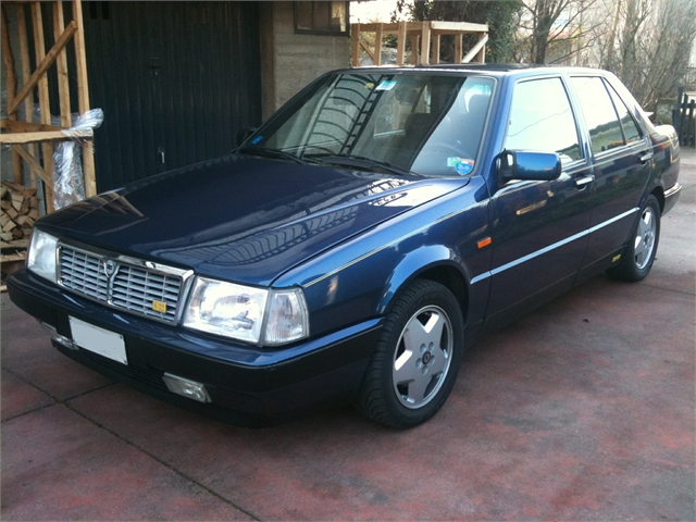 Lancia Thema 8.32 prima serie